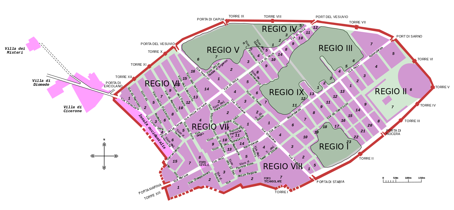 Overview map of Pompeii. Based on the 1:5000 map of Pompeii by Hans Eschebach. Published in: Liselotte Eschebach (ed.): Gebäudeverzeichnis und Stadtplan der antiken Stadt Pompeji. Cologne et. al: Böhlau 1993. The map shows town wall, gate and tower names, streets, street names, regio boundaries, regio numbers, insulae and insulae numbers, meter scale, English titles and German titles. Bitmap version of SVG without German or English titles.